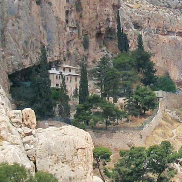 Faran monastery at Ein Prat in Judean Desert.